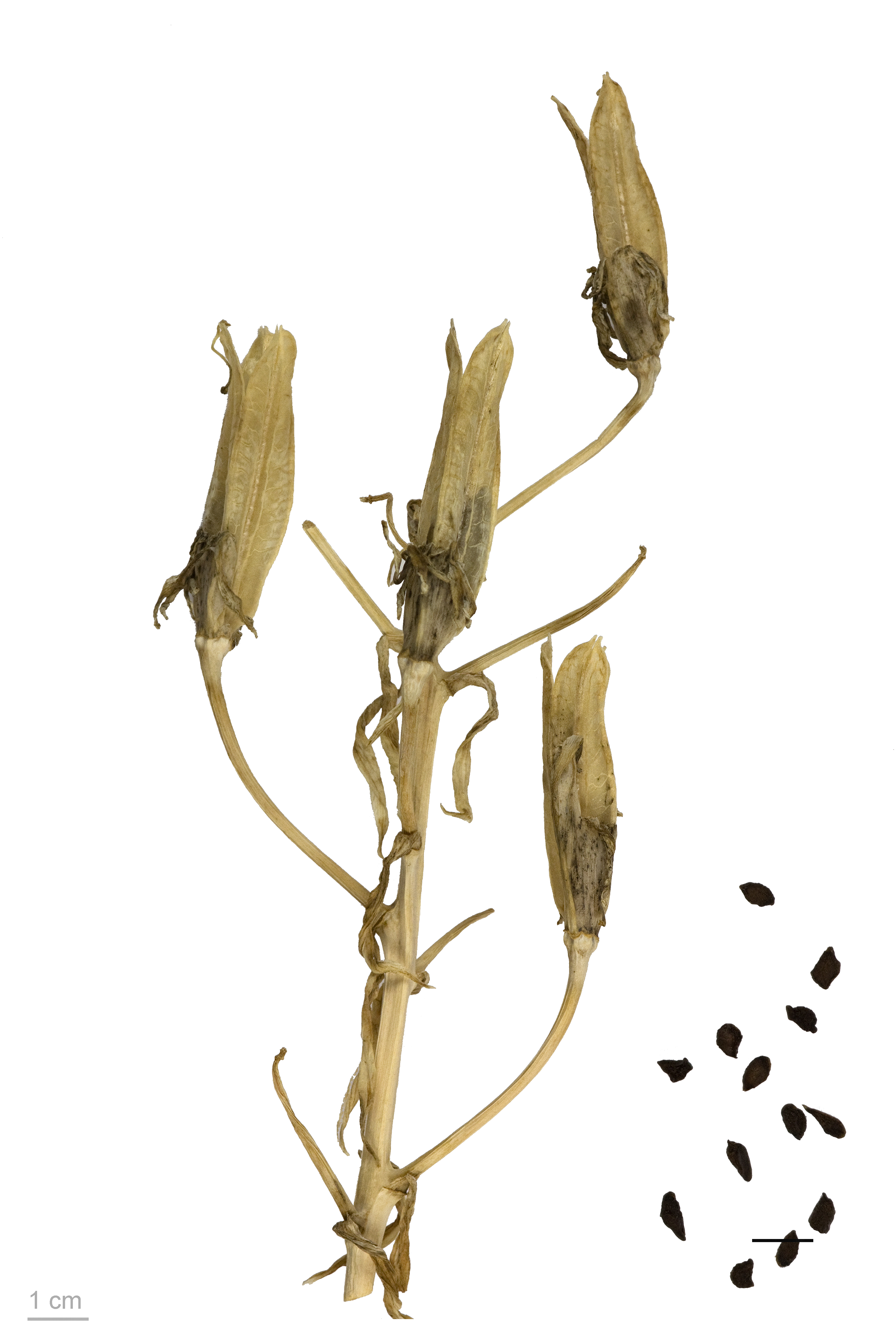 summer Hyacinth, fruits and seeds